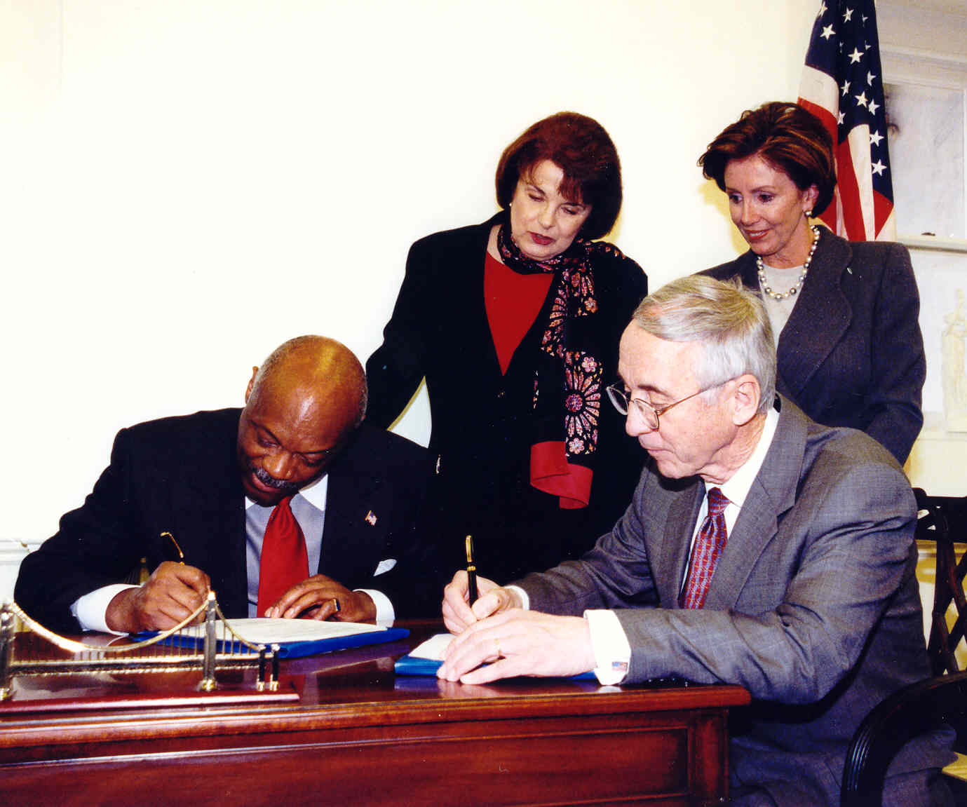 Congresswoman Pelosi and Senator Dianne Feinstein look on as San Francisco Mayor Willie Brown and Secretary of the Navy the Honorable Gordon England sign an agreement on January 23, 2002 transferring the Hunters Point Naval Shipyard to San Francisco.